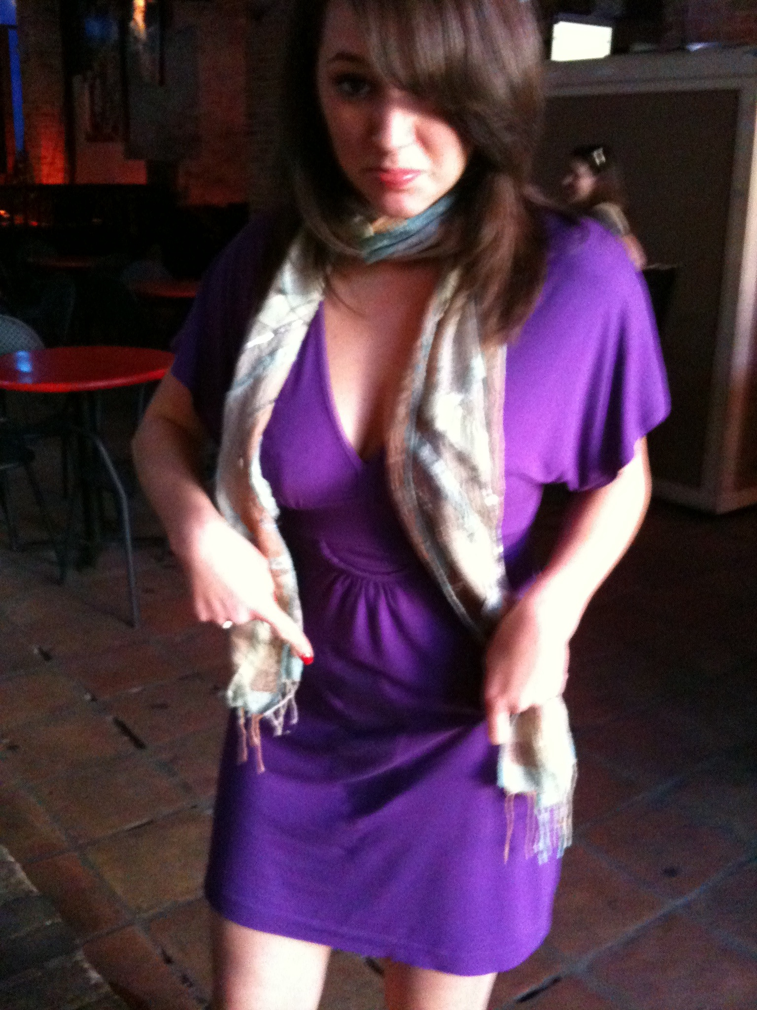 A woman who urinated while fully clothed and wet her dress